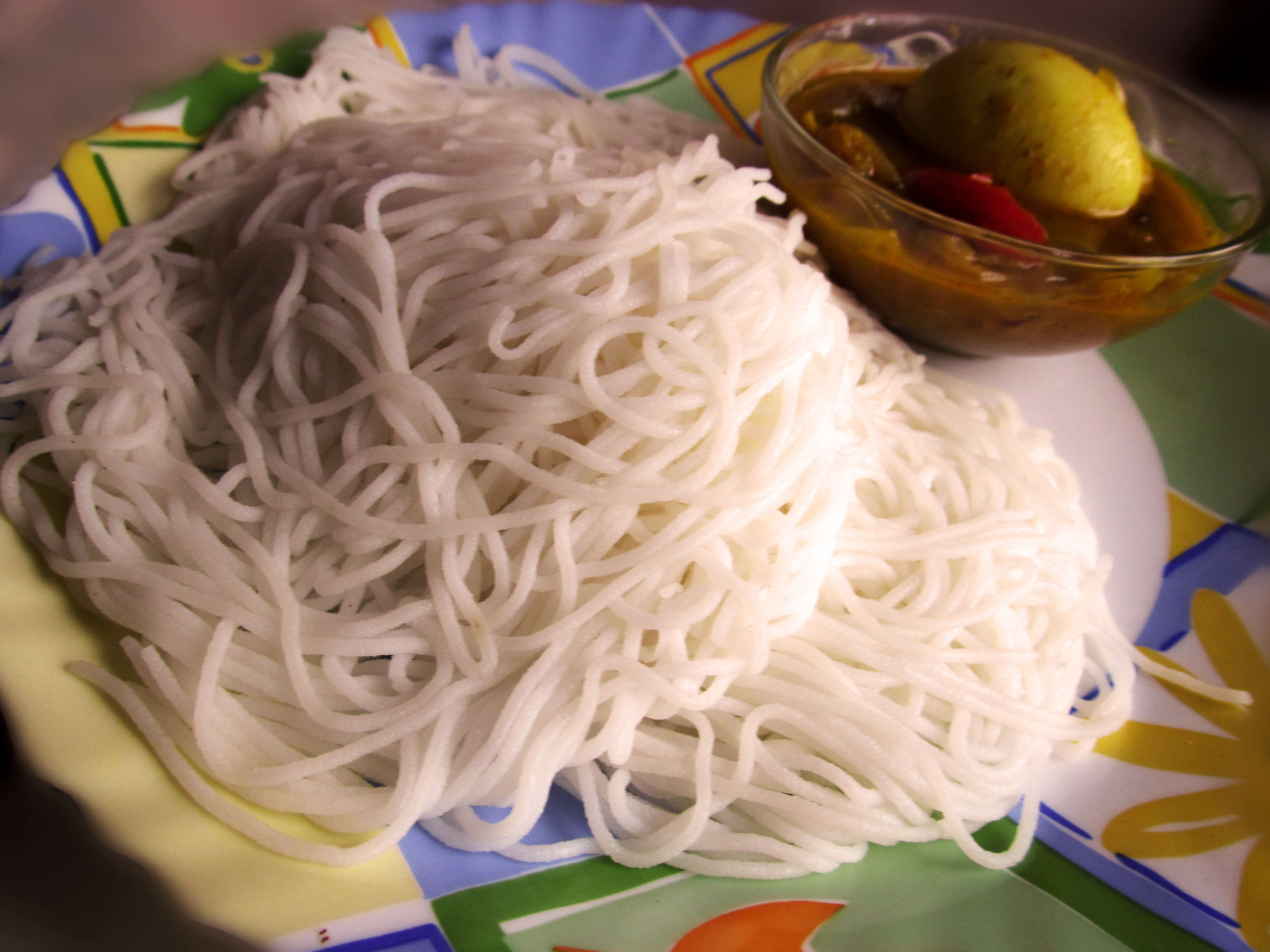 Idiyappam is a really popular dish enjoyed by all the Kerala people. It is made from rice flour. The flour is first made into a dough by mixing with hot water and then it is squeezed using a rice noodle maker. then is is steamed using a pressure cooker. Idiyappam can be enjoyed with many curries like Chicken curry, Egg curry, etc and also with coconut milk.